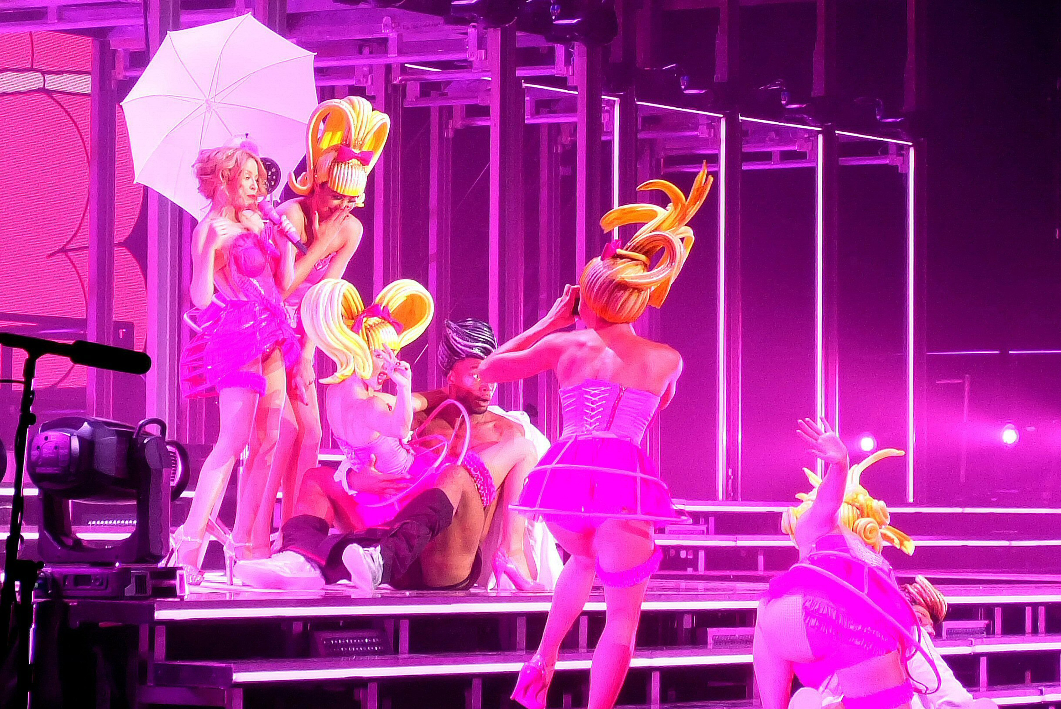 Kylie Minogue performs her Kiss Me Once Tour at Bercy, Paris, November 2014